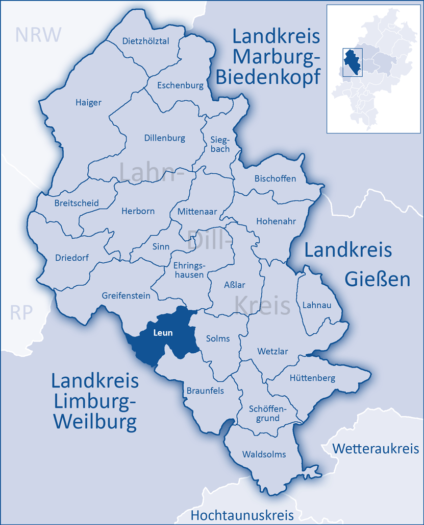 The map shows a district in the area of Lahn-Dill-Kreis